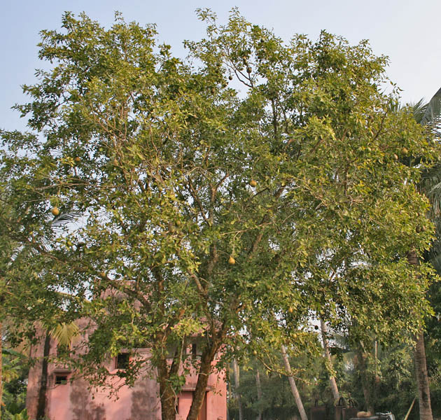 Bael Aegle marmelos at Narendrapur near Kolkata, West Bengal, India.